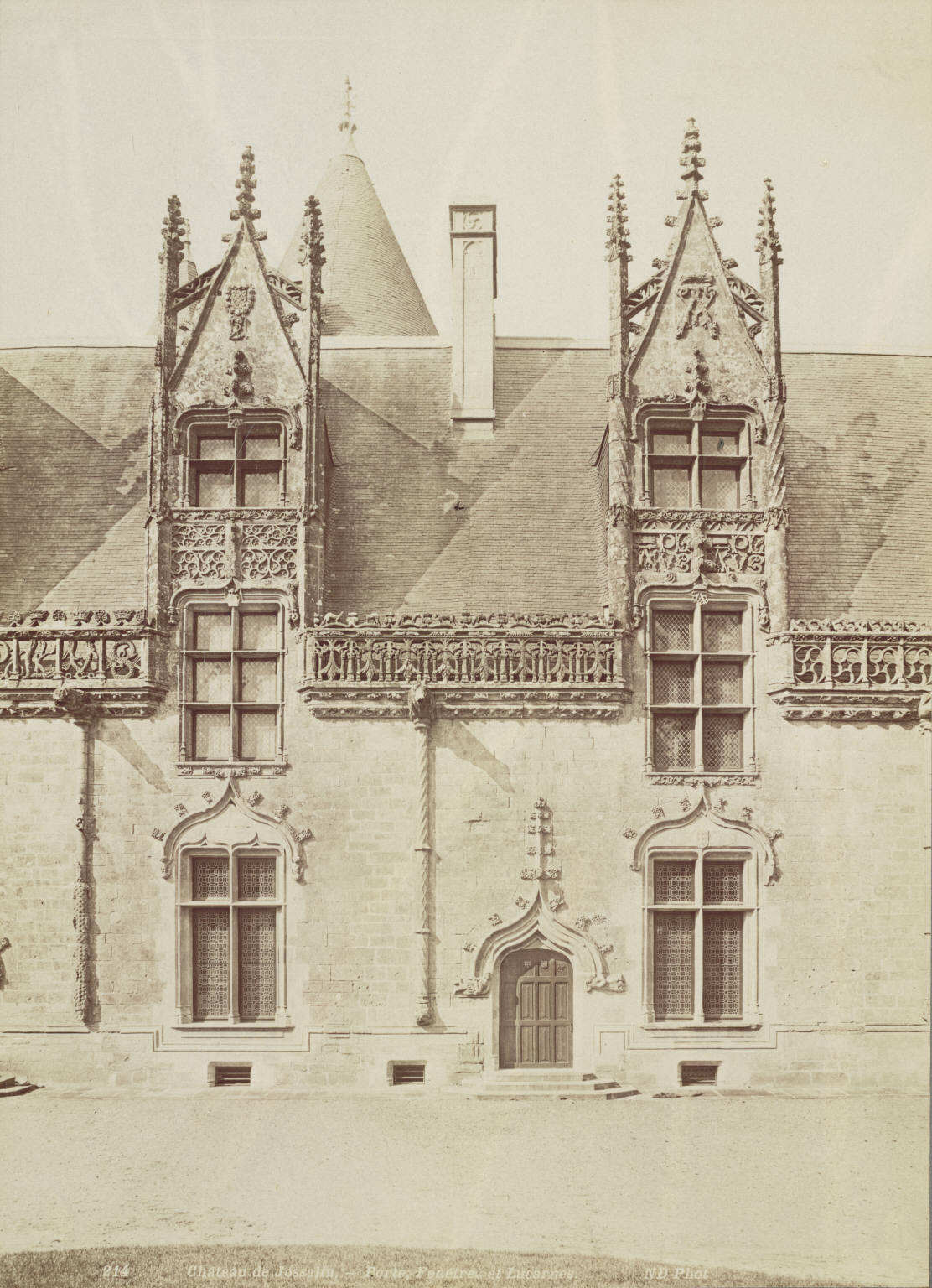 Collection: A. D. White Architectural Photographs, Cornell University Library Accession Number: 15/5/3090.01359 Title: Josselin. Château, Window detail Photographer: Neurdein Frères (French, active ca. 1863-1912) Building Date: ca. 1490-ca. 1510 Photograph date: ca. 1865-ca. 1895 Location: Europe: France; Josselin Materials: albumen print Image: 10.5512 x 11.6142 in.; 26.8 x 29.5 cm Style: Renaissance Provenance: Transfer from the College of Architecture, Art and Planning Persistent URI: There are no known copyright restrictions on this image. The digital file is owned by the Cornell University Library which is making it freely available with the request that, when possible, the Library be credited as its source. We had some help with the geocoding from